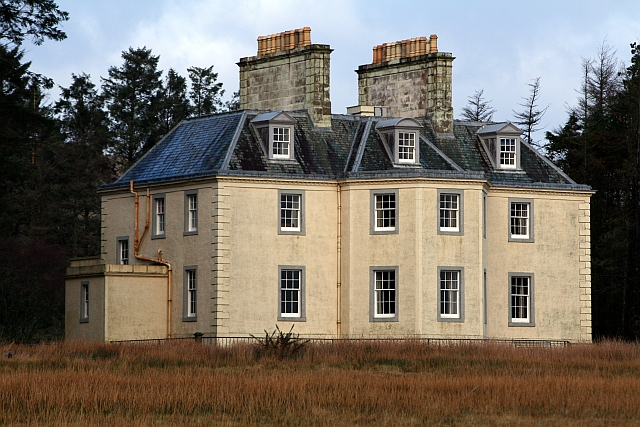 Saddell House Showing the rear of the house, built in 1774 by Colonel Donald Campbell. Saddell House stands right on the edge of the beach to take advantage of views across both the Kilbrannan Sound and the fertile plain inland. It is a typical Scottish laird’s house of its period, with generously proportioned rooms and large light windows. The house also proved a good base for hunting and fishing and it was while an eventual tenant, a Reverend Bramwell, was out shooting in September 1899 that disaster struck. A chimney fire spread to the attic, destroying the roof and gutting the house. Only the walls and a fine set of service rooms in the basement survived. Fortunately, the house was judged worthy of repair and was rebuilt almost at once.